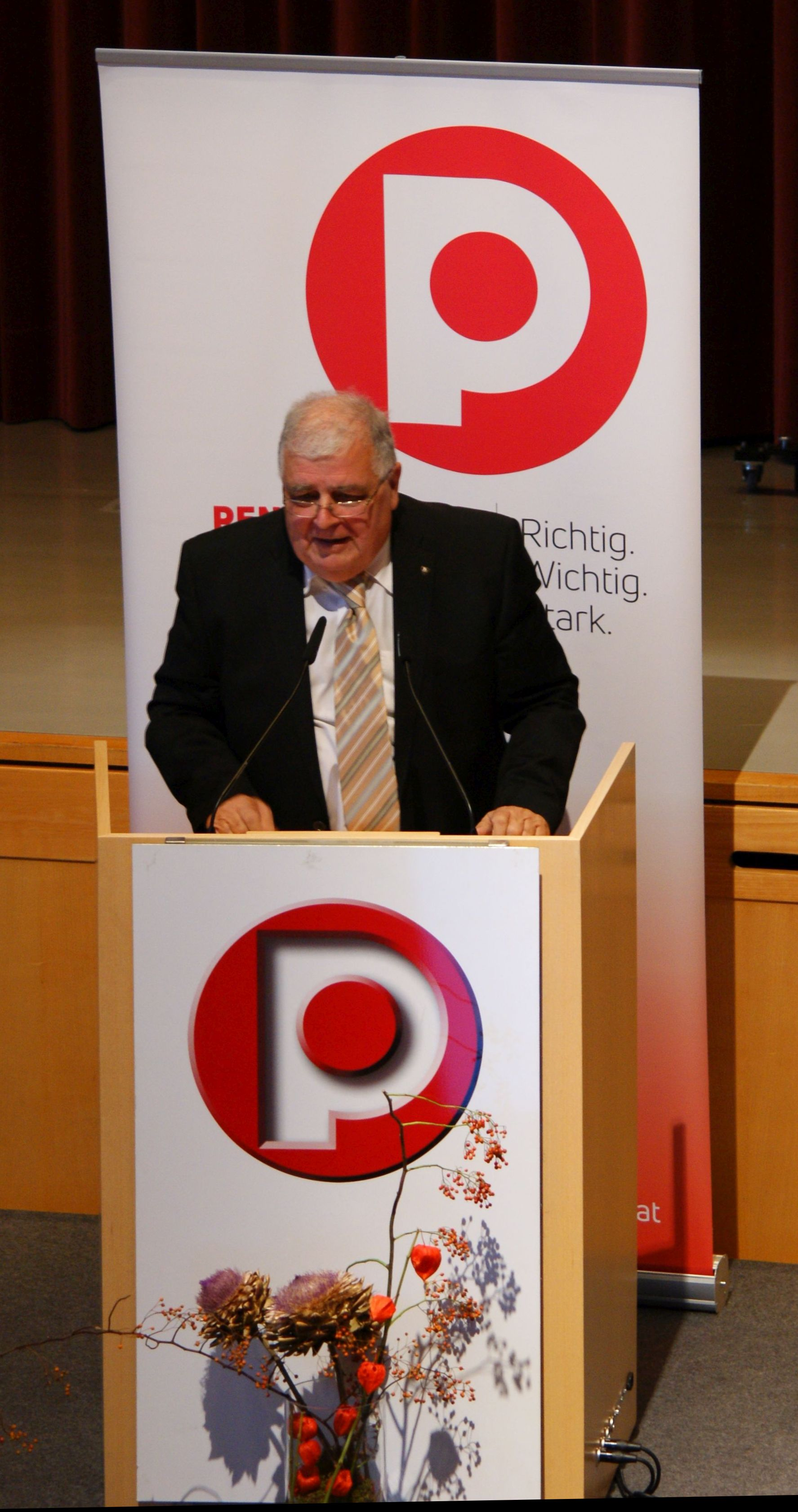 70th Anniversary Celebration of the Pensioners' Association Vorarlberg (Pensionistenverband Vorarlberg) at the Ramschwagsaal in Nenzing on 4 October 2019. Manfred Lackner is President of the Pensioners' Association Vorarlberg (from 4 October 2019) and Social Officer of the Pensioners' Association of Austria.